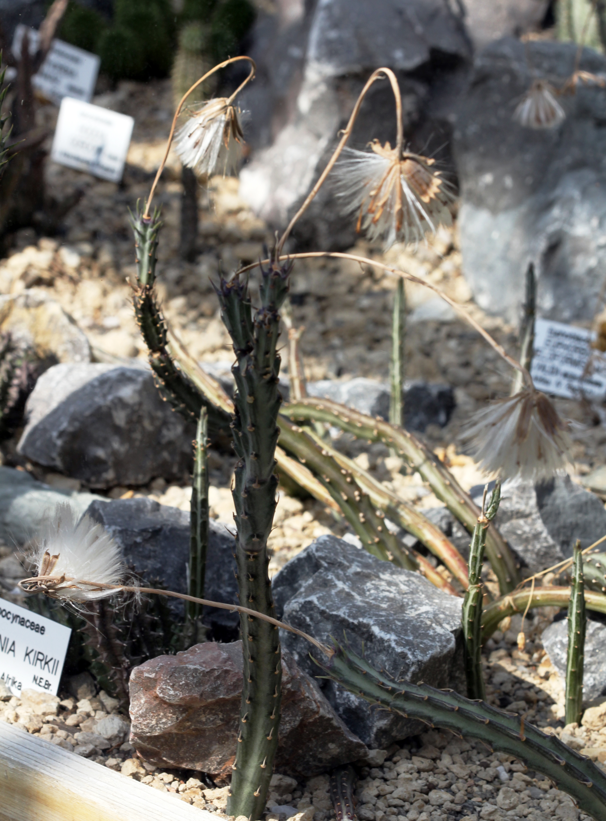 Plant Huernia kirkii, (Huernia kirkii), the Botanical Gardens of Charles University, Prague, Czech Republic